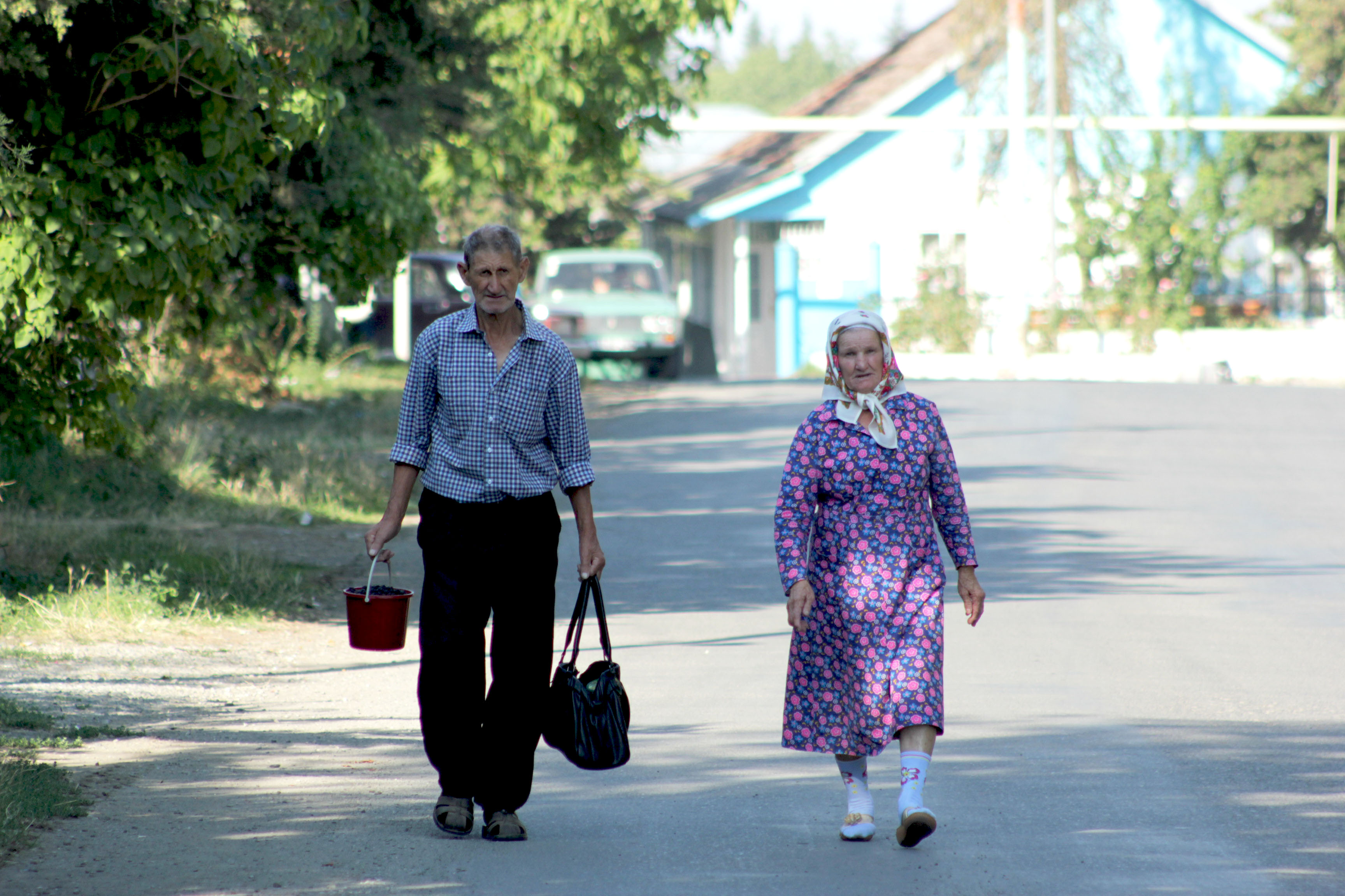 Муж и жена на улице в Ивановке